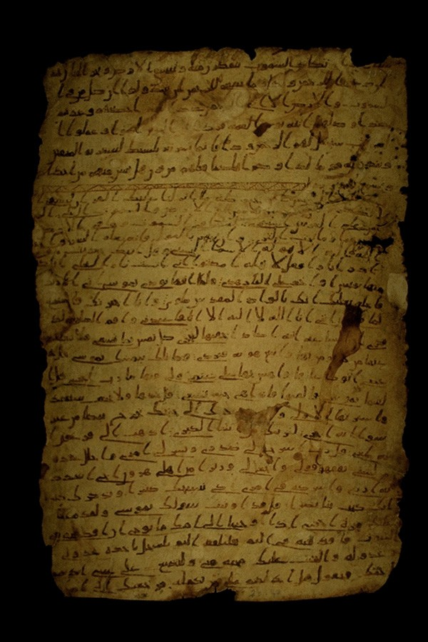 This page has probably been written by two different copyists as the script in the first half is different from the second. It is italic in the first half and regular in the second half of the fragment except for the letter [’Alif].